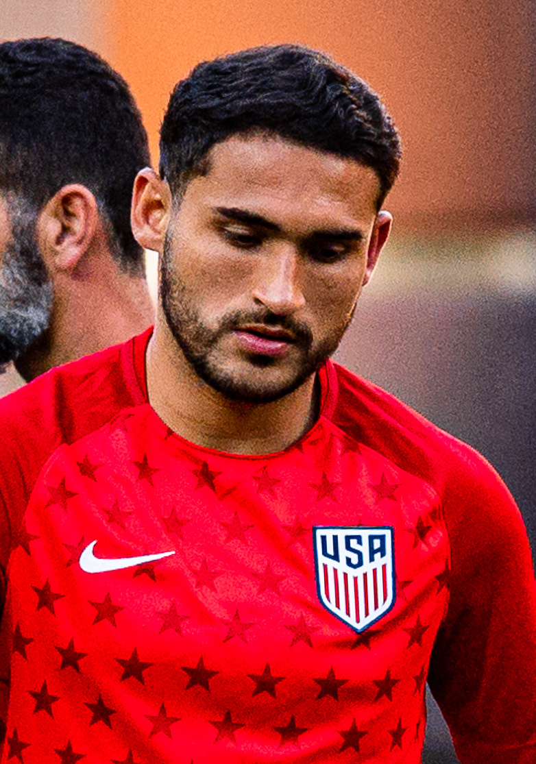 USMNT vs. Trinidad and Tobago